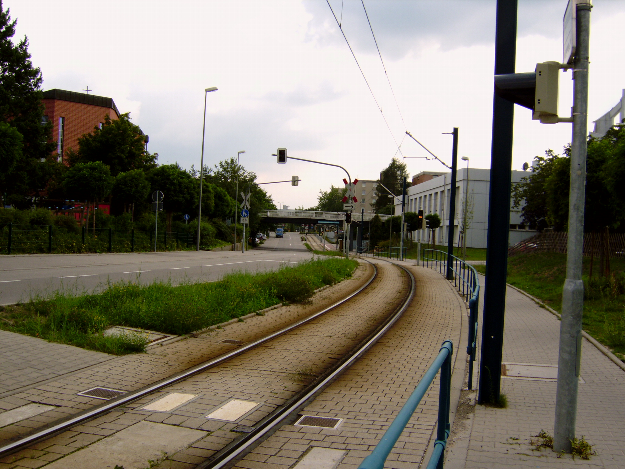 view over Mozartstrasse of Woerth am Rhein